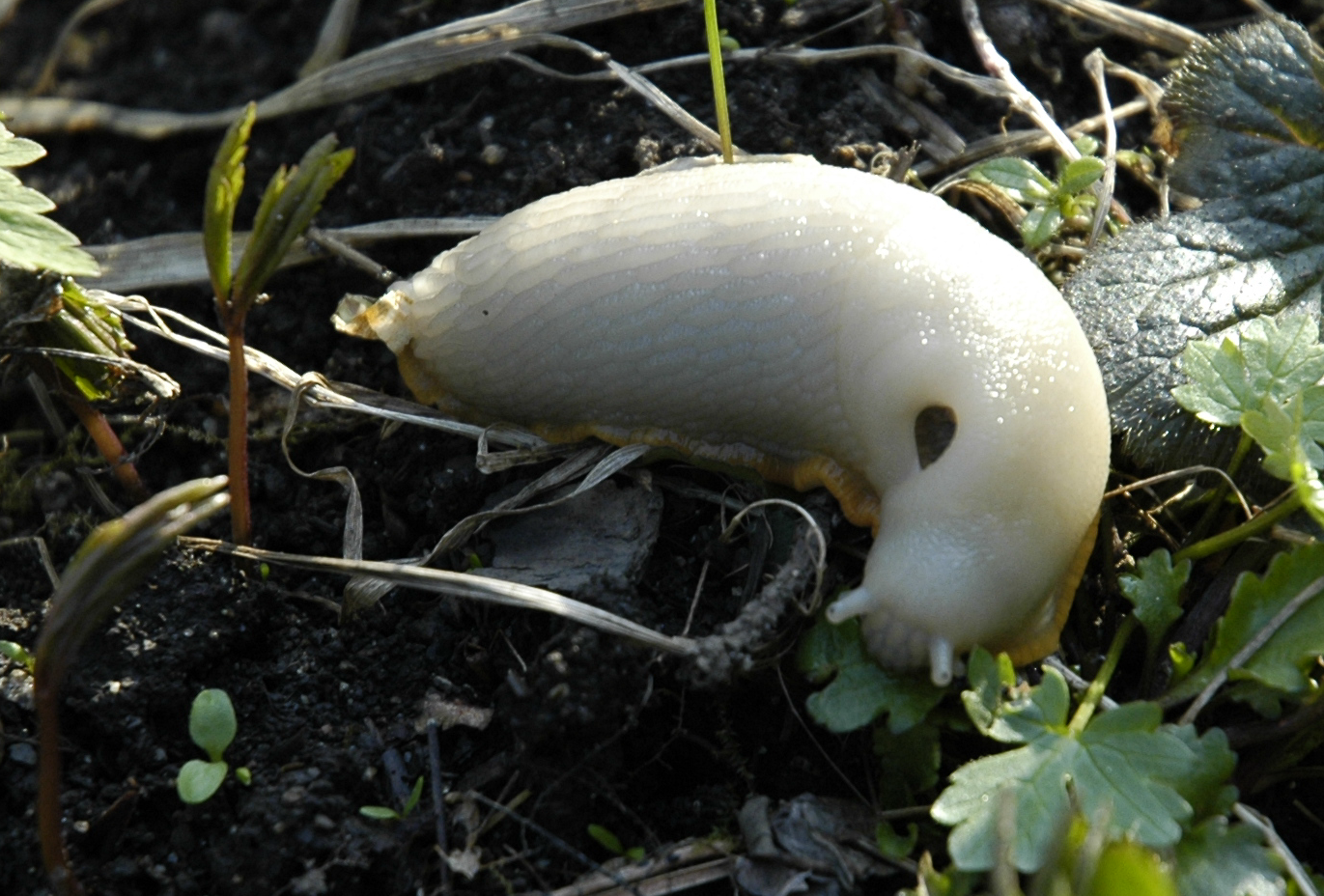 White variant of Arion ater